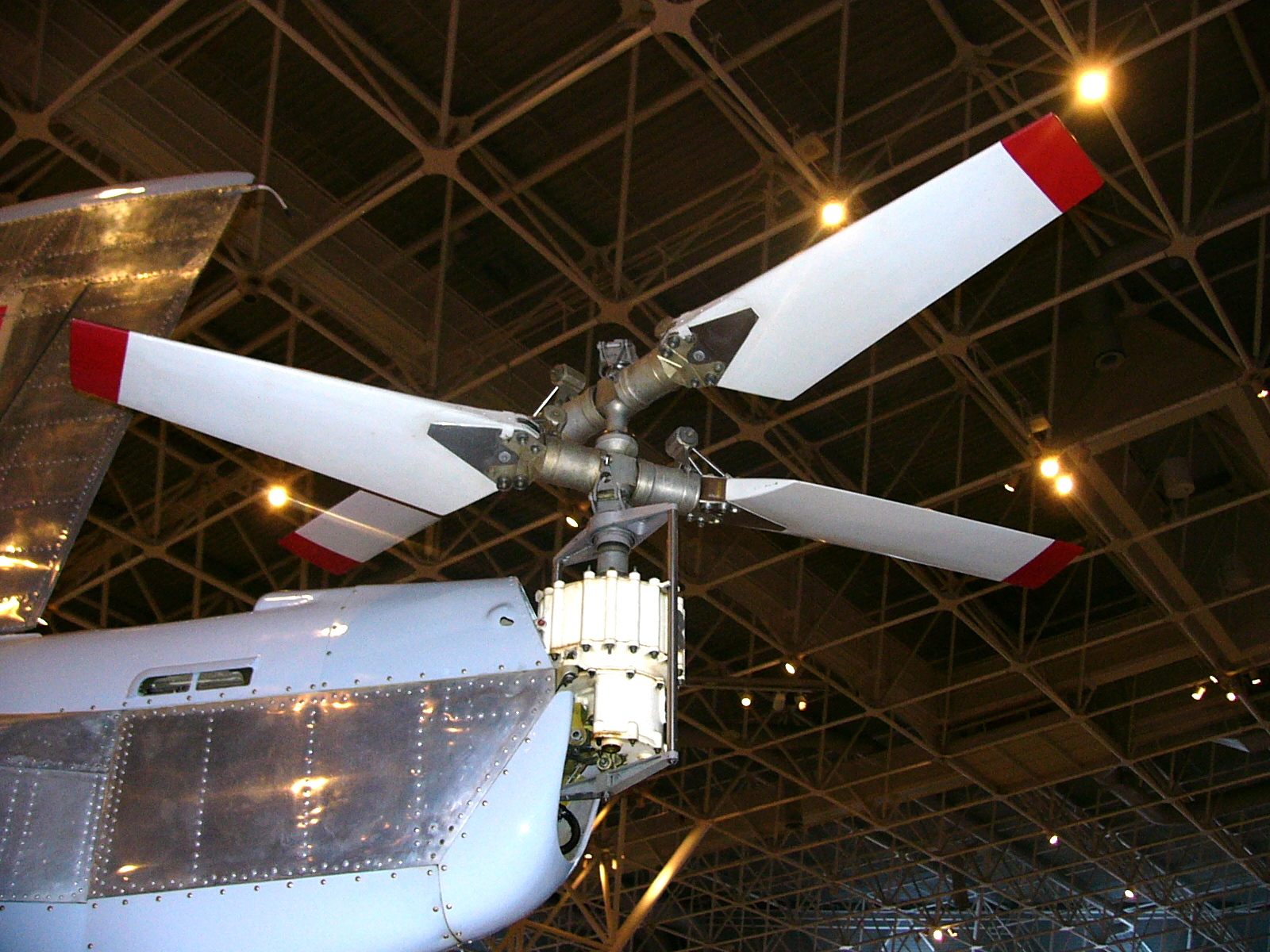 The contra-rotating, bi-plane tailrotor of the CL-84 Dynavert